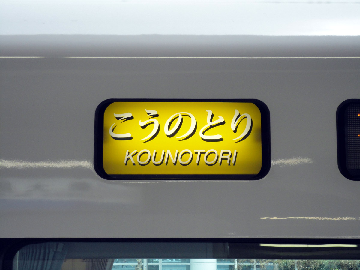 Destination blind for JR West "Kounotori" limited express